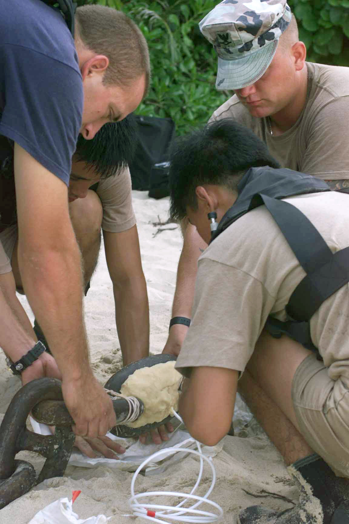 Divers from the U.S. Navy and Republic of Singapore pack “C-4” explosive charges as part of exercises conducted during Cooperation Afloat Readiness and Training (CARAT) 2002. Divers from the auxiliary salvage ship USS Salvor (ARS 52), Mobile Diving Salvage Unit (MDSU) 1 and the Republic of Singapore Navy teamed up for multiple diving, explosive ordnance, and salvage training exercises during CARAT 2002. CARAT consists of a series of bilateral training exercises involving the U.S. Navy, U.S. Marine Corps, and several Asian countries.